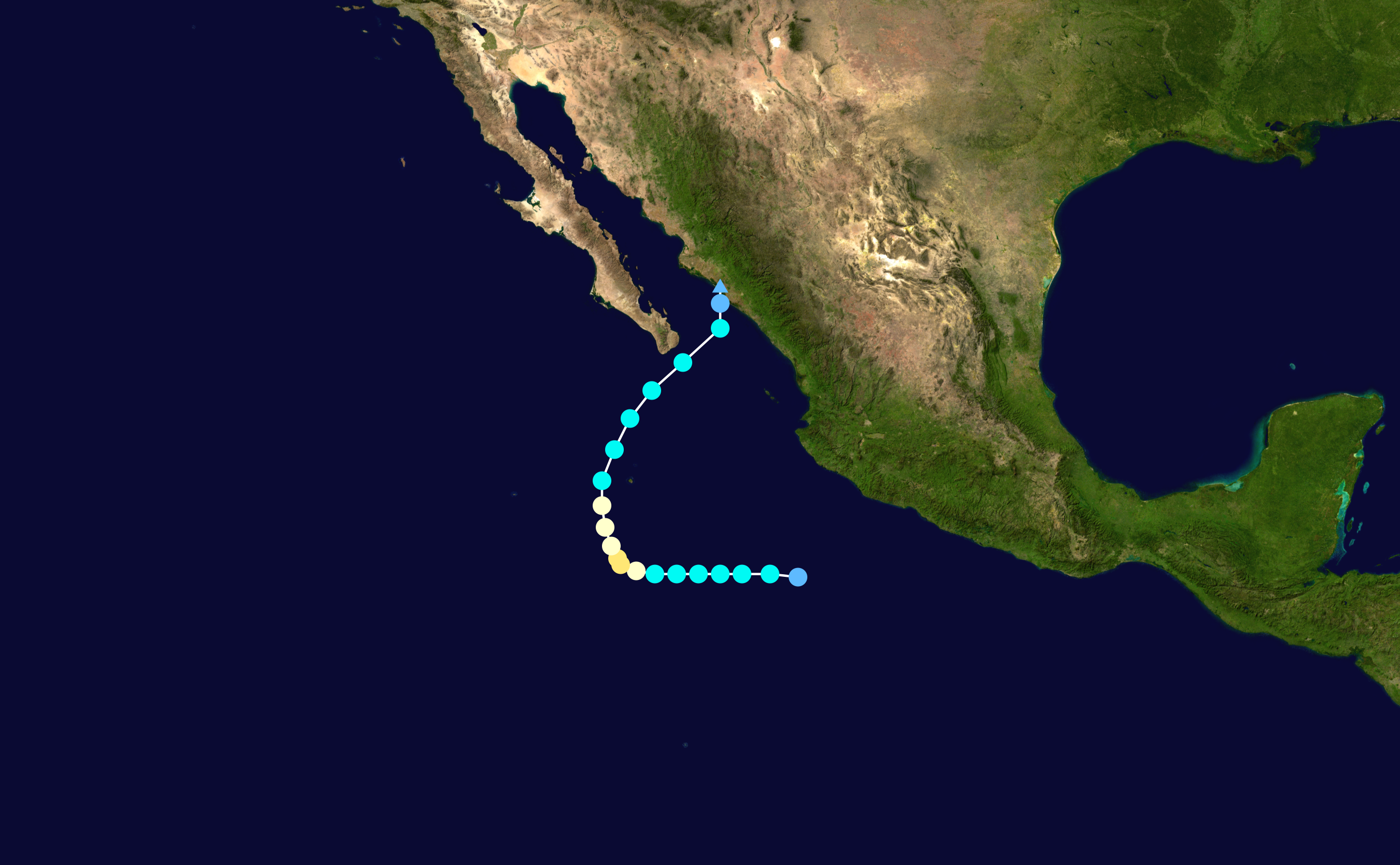 Track map of Hurricane Paul of the 2006 Pacific hurricane season. The points show the location of the storm at 6-hour intervals. The colour represents the storm's maximum sustained wind speeds as classified in the Saffir–Simpson scale (see below), and the shape of the data points represent the nature of the storm, according to the legend below. Saffir–Simpson scale Tropical depression≤38 mph≤62 km/h Category 3111–129 mph178–208 km/h Tropical storm39–73 mph63–118 km/h Category 4130–156 mph209–251 km/h Category 174–95 mph119–153 km/h Category 5≥157 mph≥252 km/h Category 296–110 mph154–177 km/h Unknown Storm type Tropical cyclone Subtropical cyclone Extratropical cyclone / Remnant low / Tropical disturbance / Monsoon depression